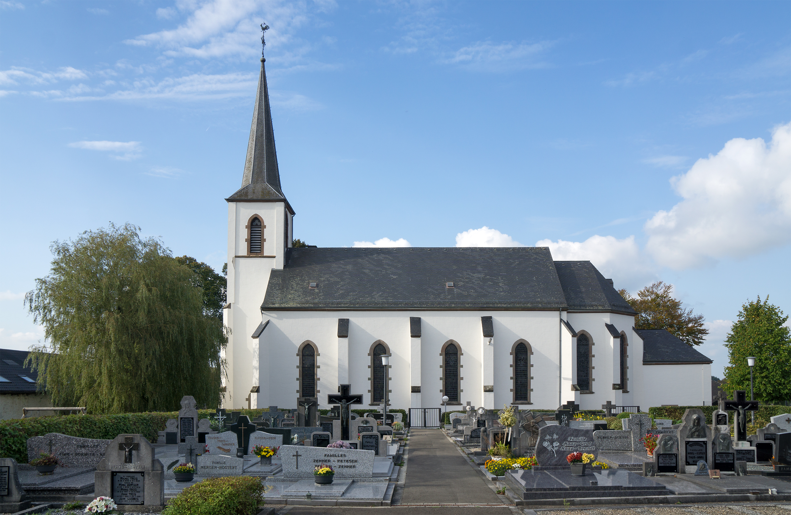 Church of Boxhorn